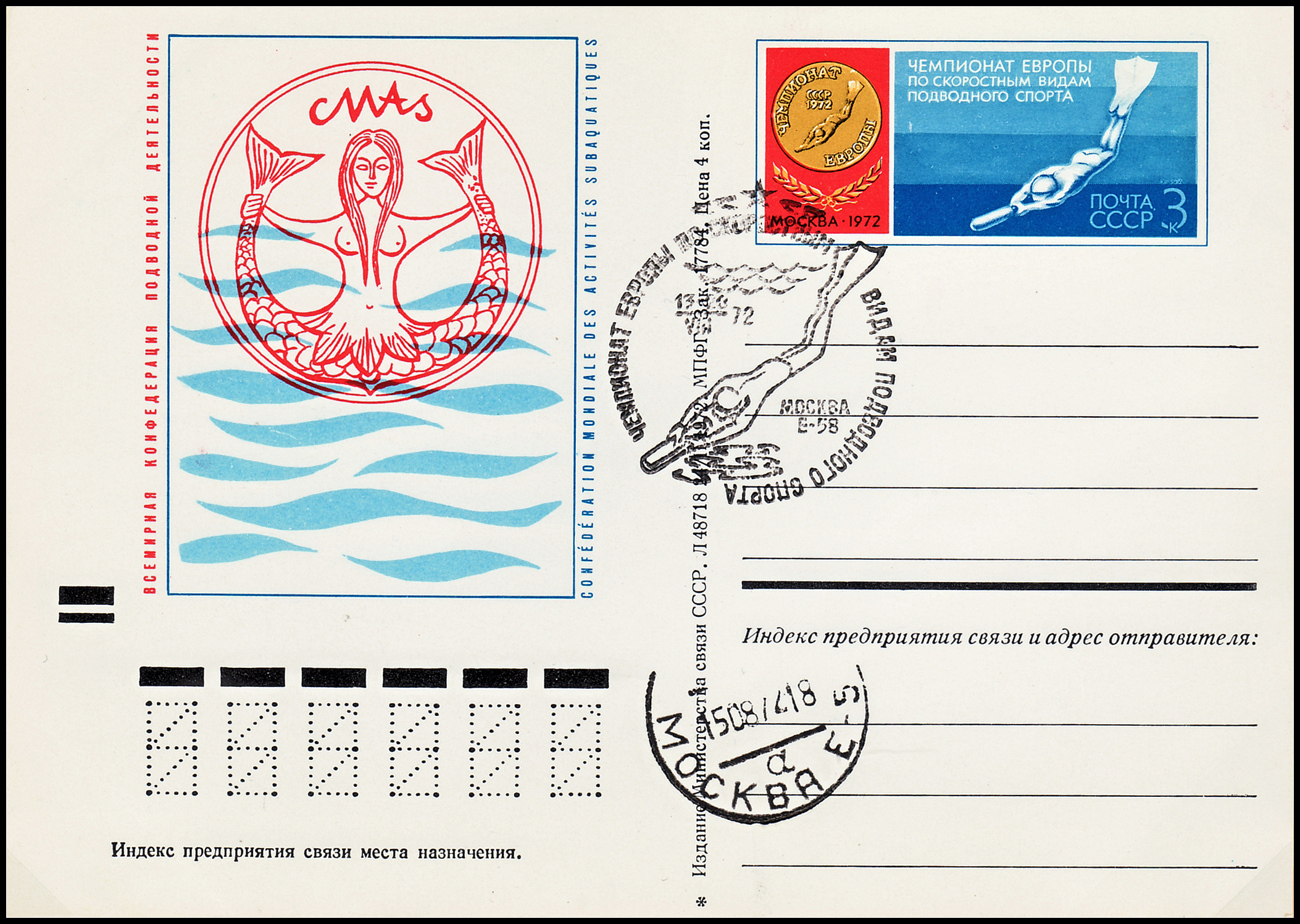 USSR, 1972. Postal card with the commemorative stamp. "European Championships in high-speed kinds of diving. Moscow" (CPA Catalogue №6). Stamp: Diver at a distance. Gold medal of the championship. Illustration: The logo of the World Underwater Federation (CMAS). Painter N. Shevtsov. Special cancellations: 13-20.08.1972. Moscow, Post office V-58. Postmark was used in the days of the championship.